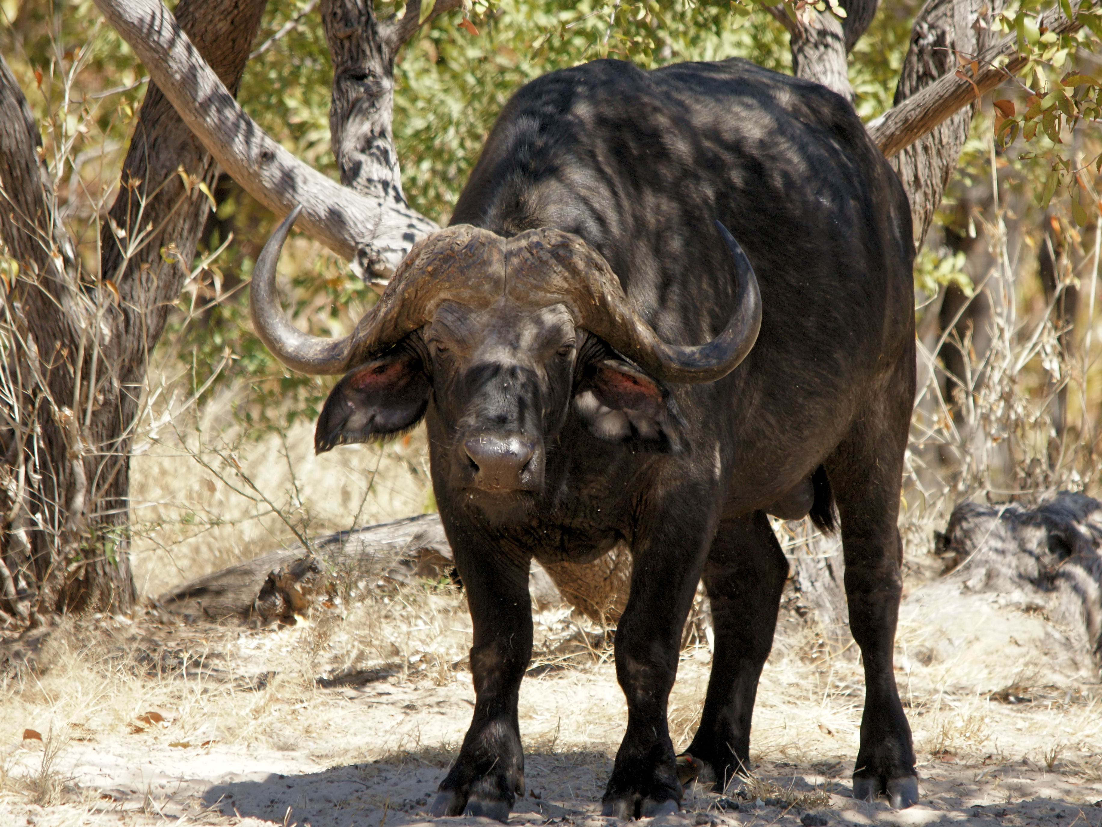 Male Cape buffalo at Mosi-oa-Tunya National Park near Livingstone, Zambia